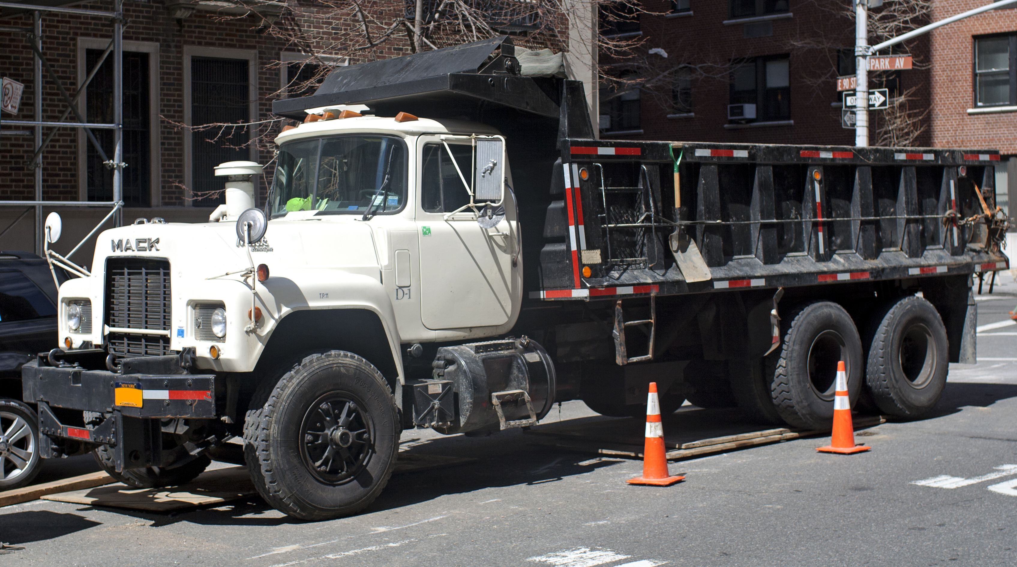 Mack R-series "Econodyne" truck in the Upper East Side.